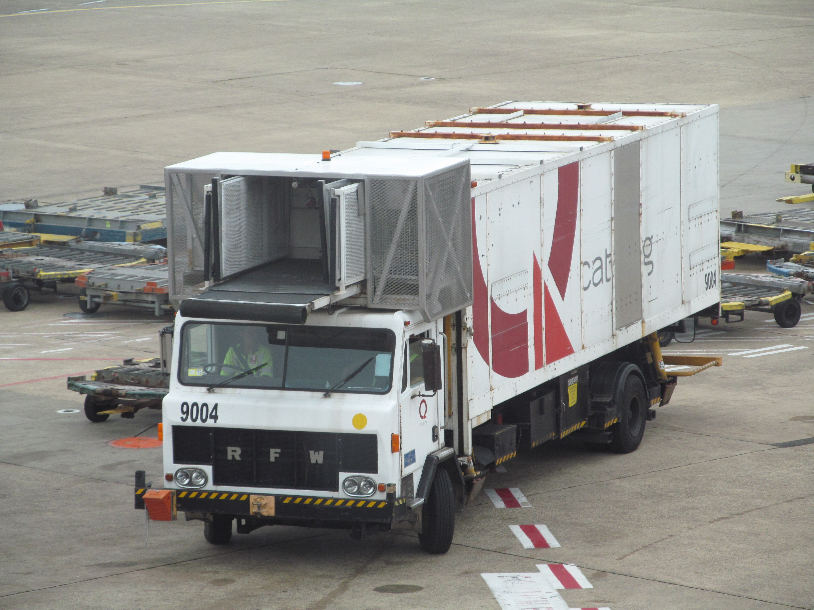 The large RFW letters on the front of this truck at Sydney Airport immediately caught my eye, as I had never heard of RFW. A bit of searching on the Internet reveals that RFW was an Australian truck manufacturer based in western Sydney, founded by Robert Frederick Whitehead. I'm not sure how old this would be - 1980s?